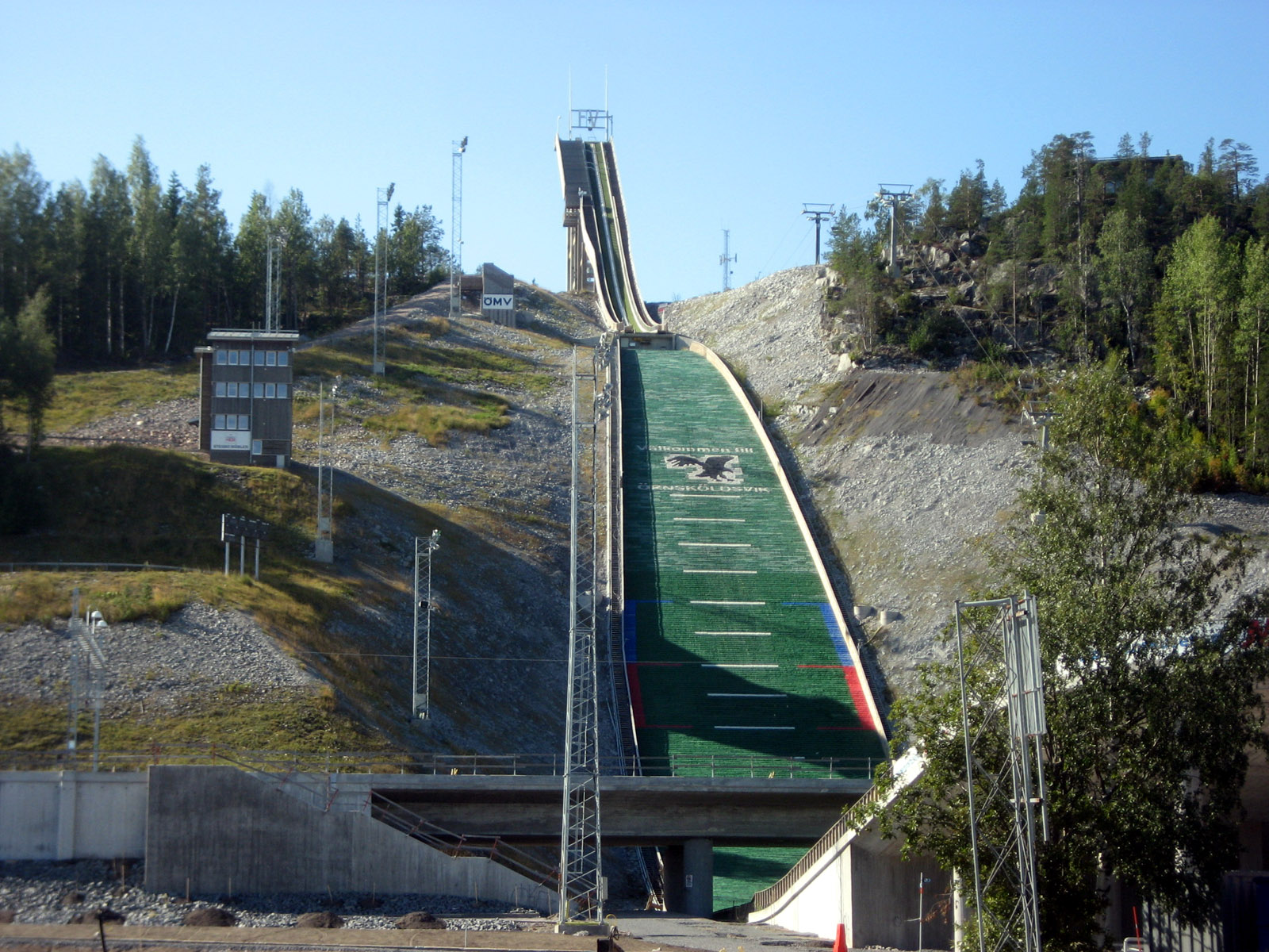 Paradiskullen ski jump (K90) just outside of downtown Örnsköldsvik, Sweden